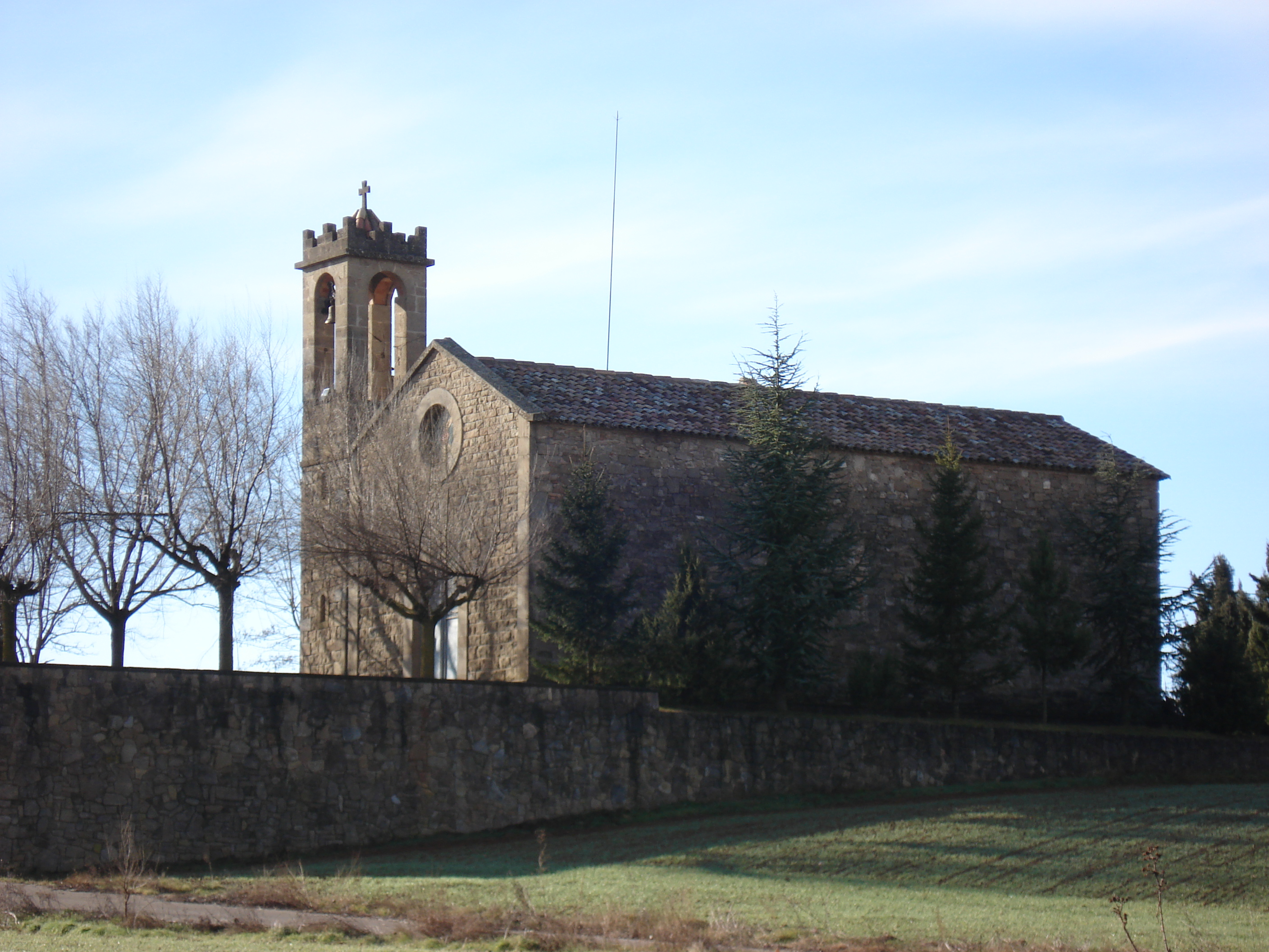 General view of Santa Maria de Lladurs's church in Lladurs, Solsonès.